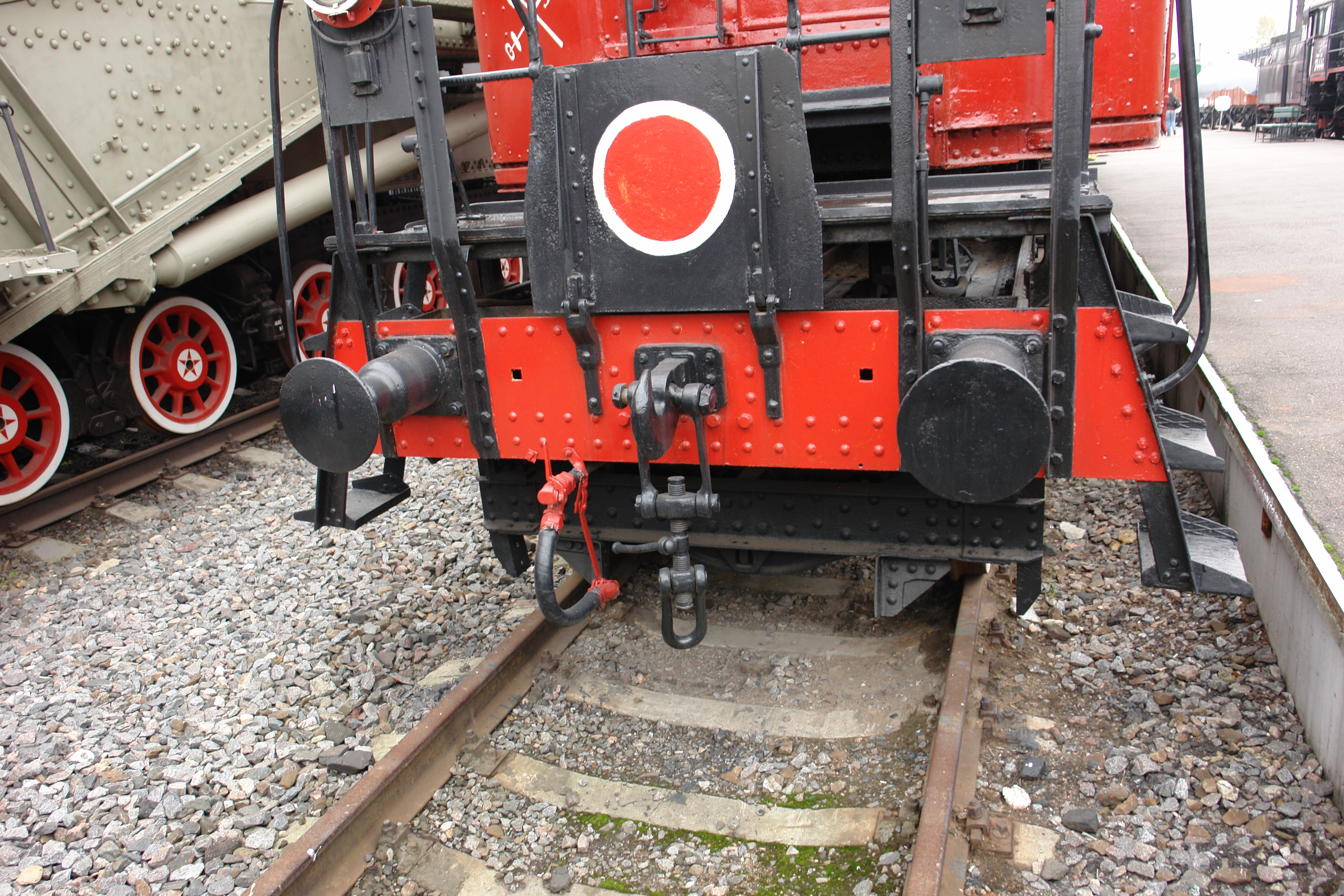 Diesel-electric locomotive Ge1 designed by Ya.M. Gakkel (later YuE002, Shch-EL-1, ShchEL1) Weight in serviceable condition180 t.Design speed75 km/hMaximum diesel power1000 hpTransmissionelectric